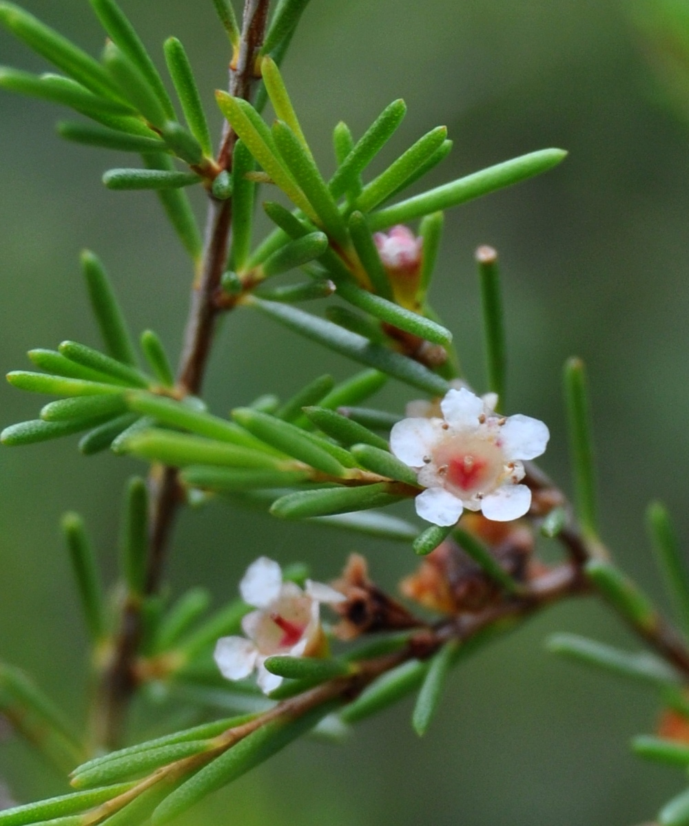 Baeckea frutescens flos et folii. From Belitong, South Sumatra, Indonesia.